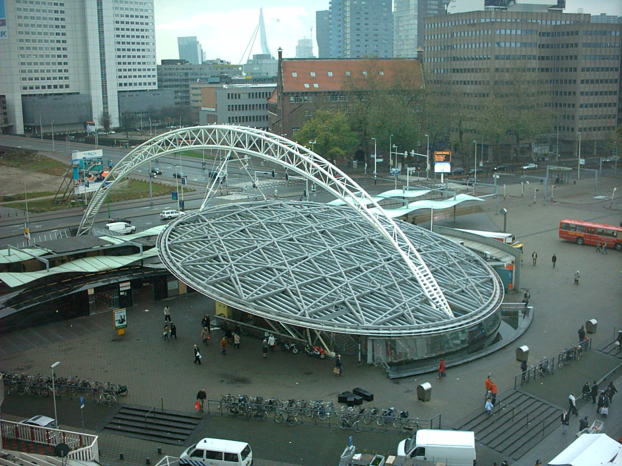 Rotterdam, the Netherlands:Rotterdam Blaak train station.